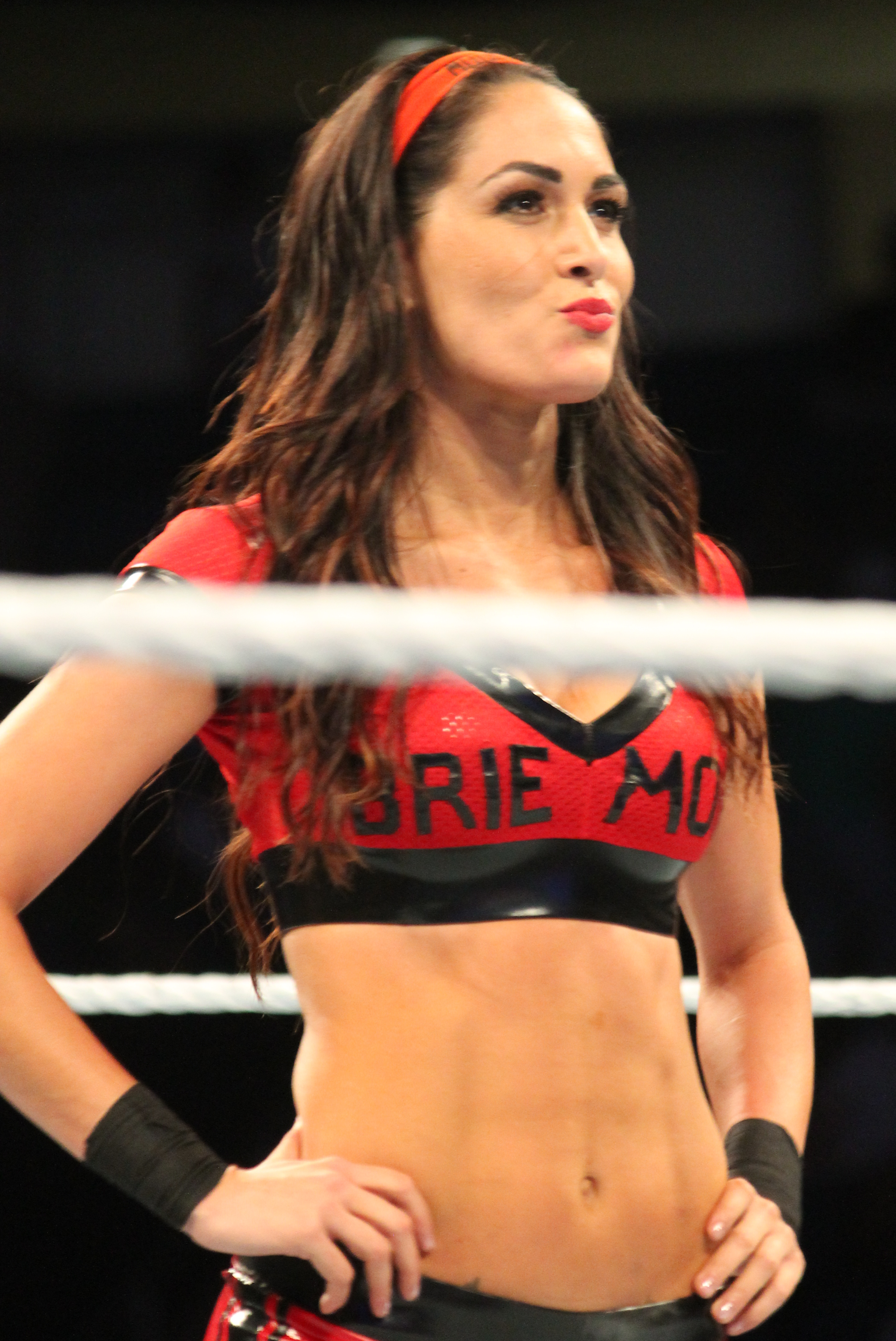 Brie Bella in the ring during a SmackDown/Main Event taping in September 2014. Cropped from original image.